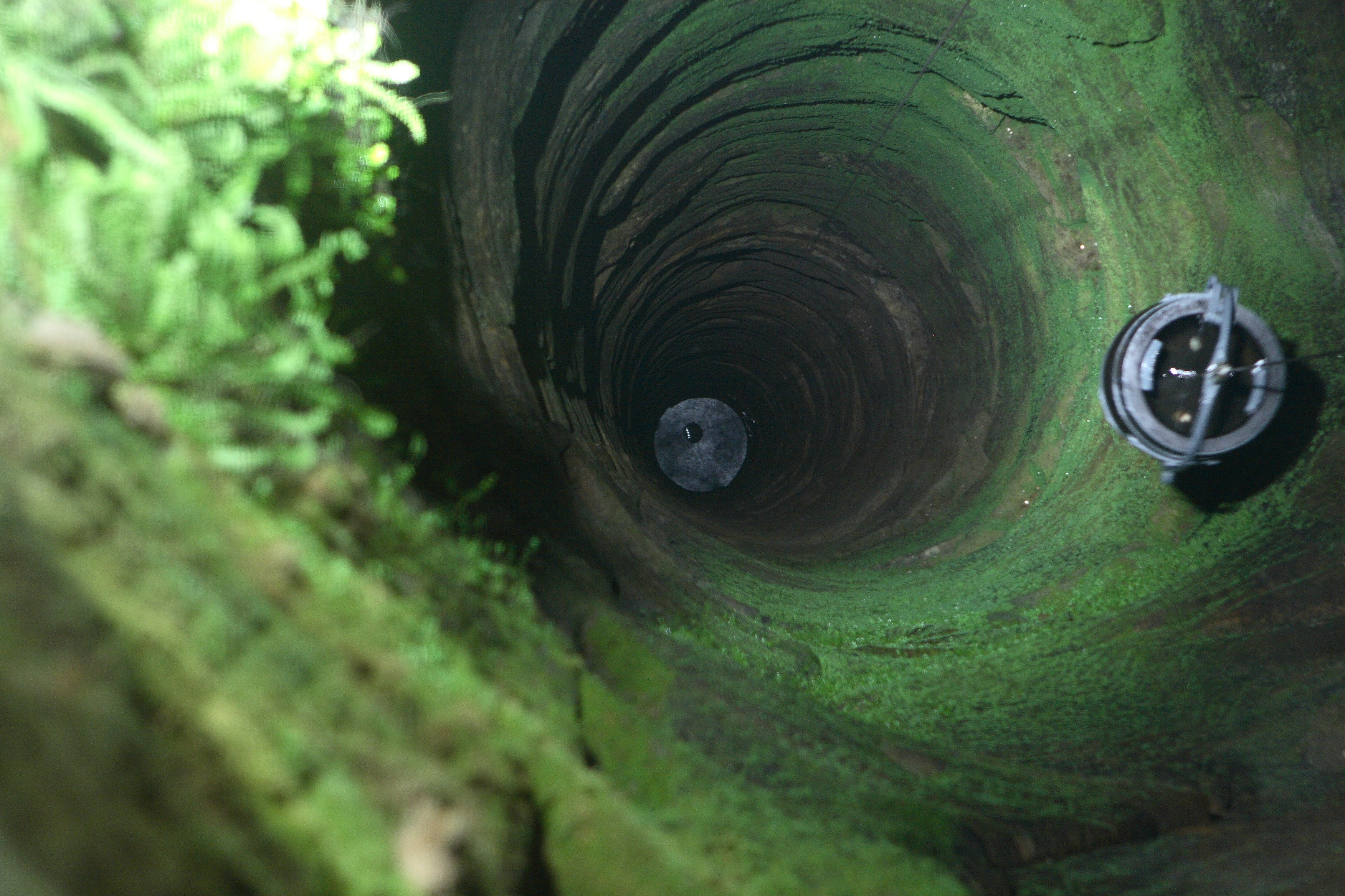 Well of Königstein Fortress (Saxony, Germany)